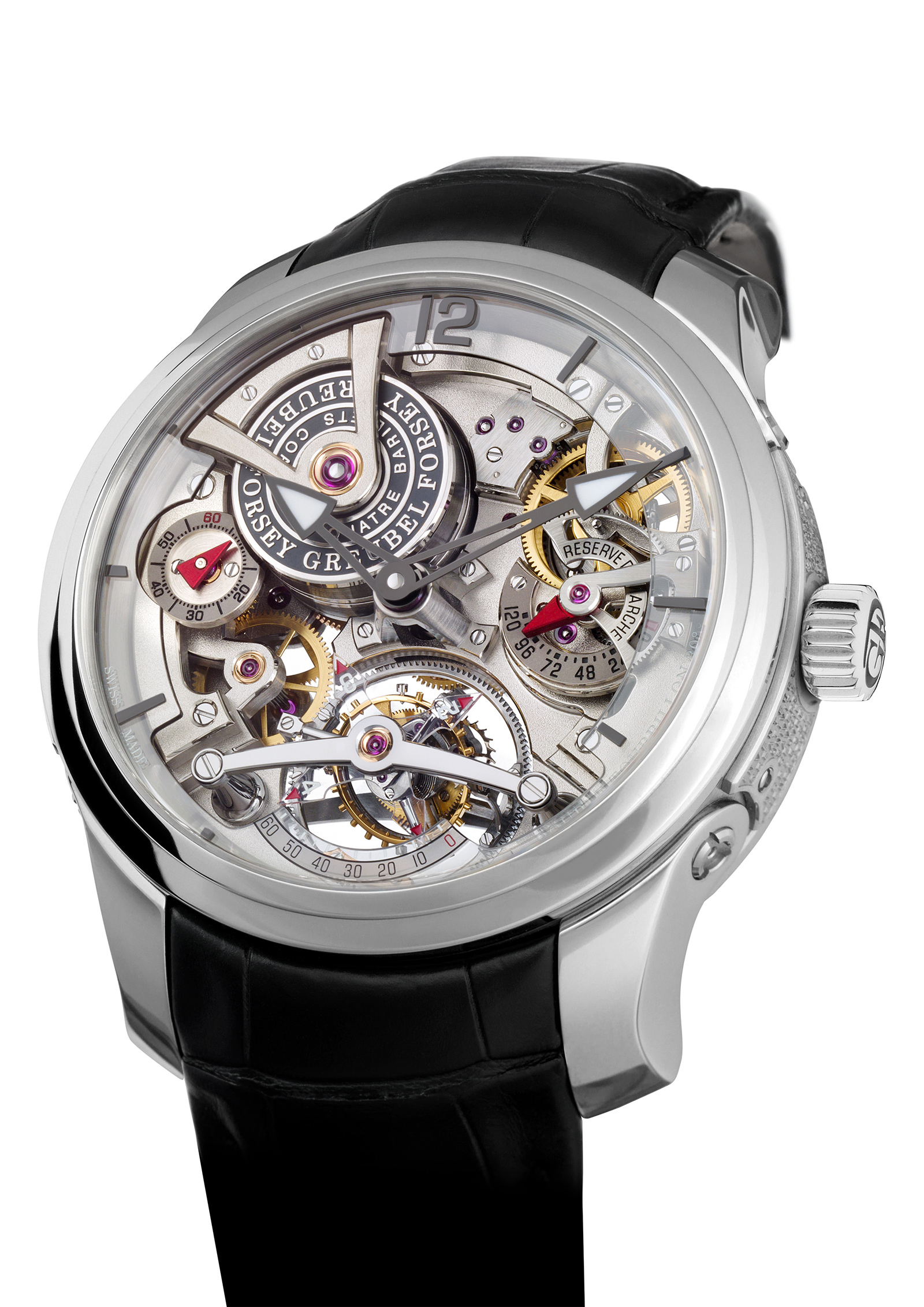 Greubel Forsey's Double Tourbillon Technique features their Double Tourbillon 30° regulator, four fast-rotating co-axial barrels and a visible spherical differential driving the power reserve indicator. At the 2011 International Timing Competition held by the Horological Museum in Le Locle, Switzerland, a Greubel Forsey Double Tourbillon Technique took first prize overall, as well as first prize in the Tourbillon category.